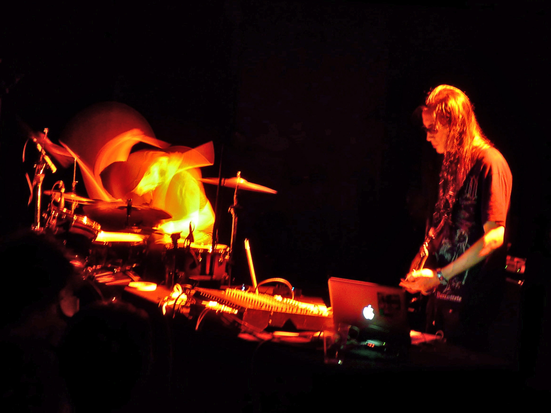 Merzbow and Balázs Pándi performing live on September 26, 2010 at Le Poisson Rouge in New York City.